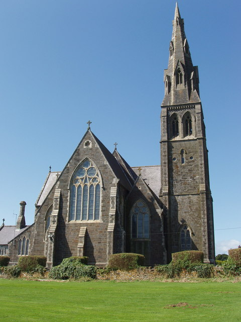 Holy Cross Church, Tramore, a Roman Catholic church designed by J. J. McCarthy, where construction started in 1856. The church was consecrated in 1862. It has at least two masses every day, and more in July and August to cater for holiday visitors to this beach resort town.